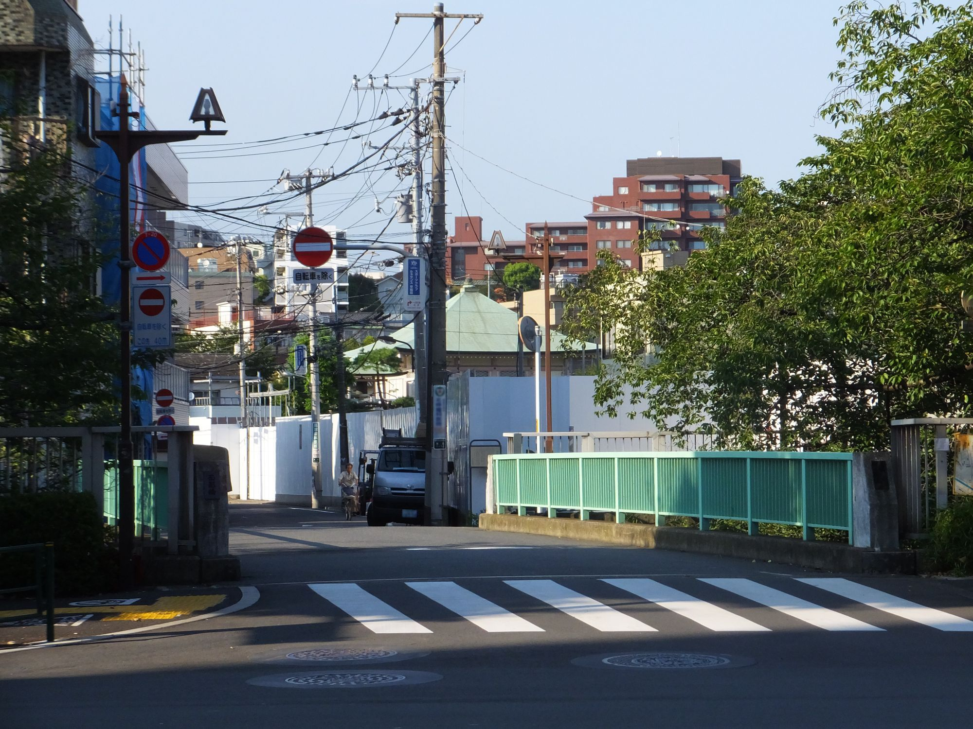 Omokage-bashi bridge over the Kanda River and Nanzō-in temple in Toshima, Tokyo